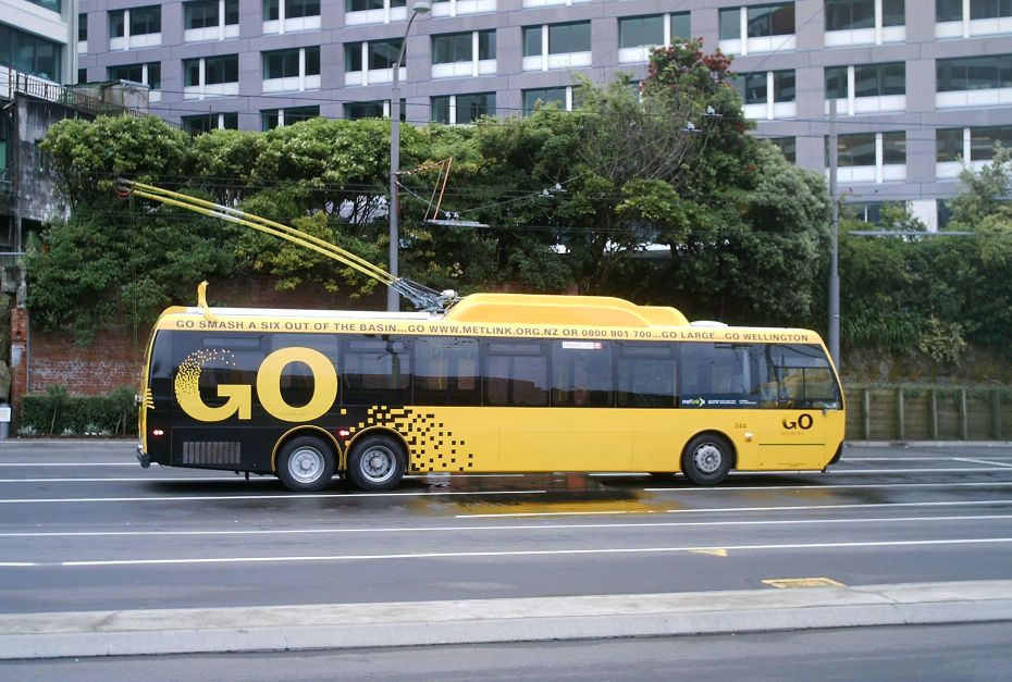 Photo of a new-model trolleybus in Wellington, New Zealand